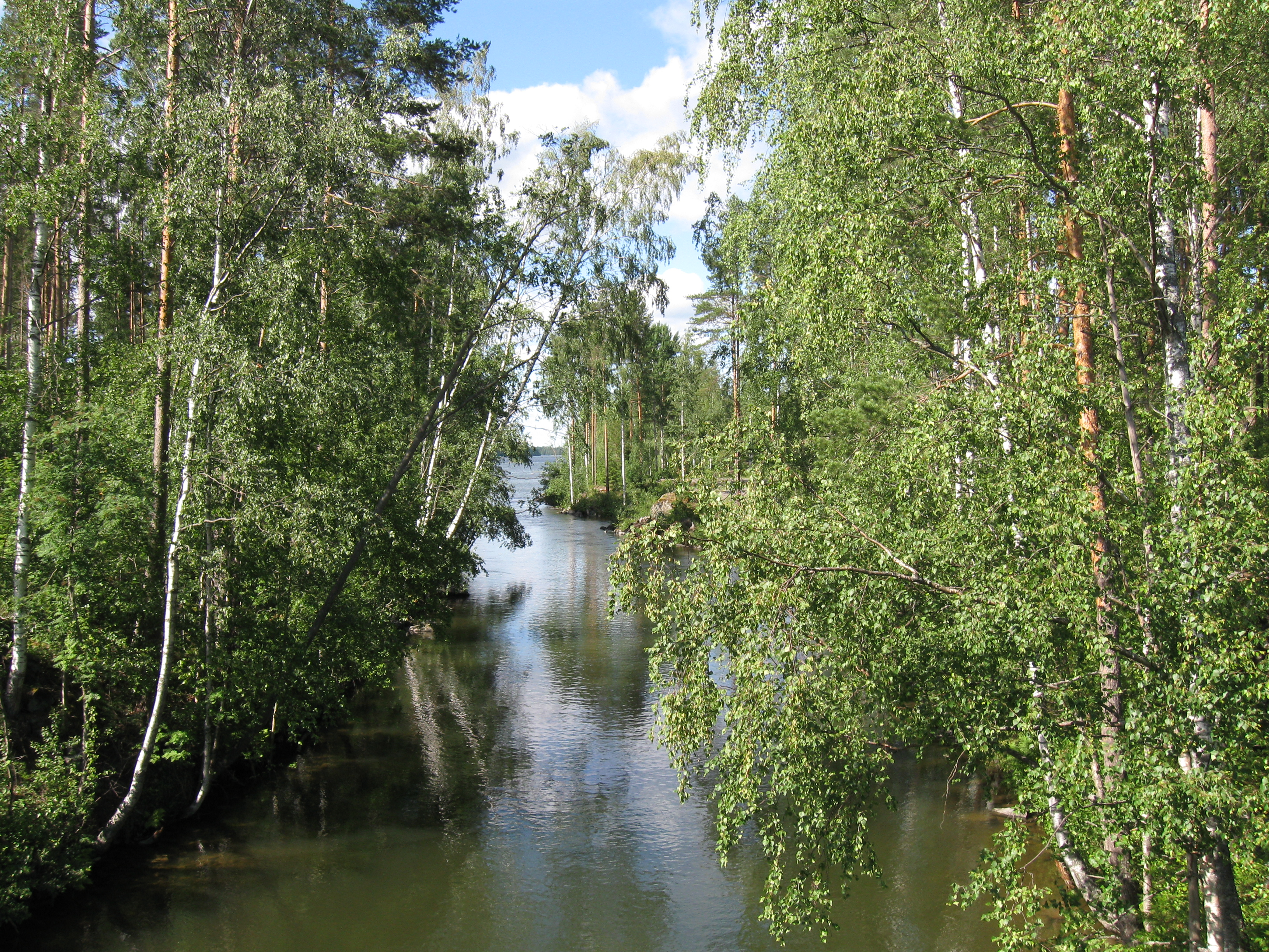 Kivijärvensalmi, a short stream between the lakes Simpelejärvi and Kivijärvi at Simpele, Rautjärvi, Finland, seen towards Simpelejärvi in the North.